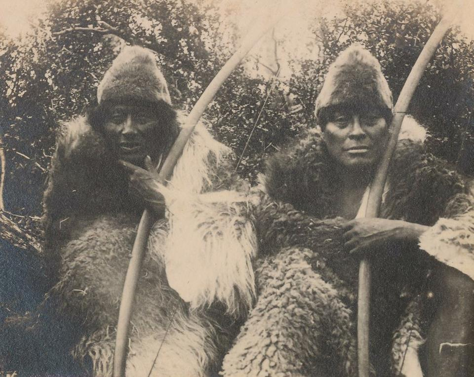 Ushuaia, Onas. Fines siglo XIX